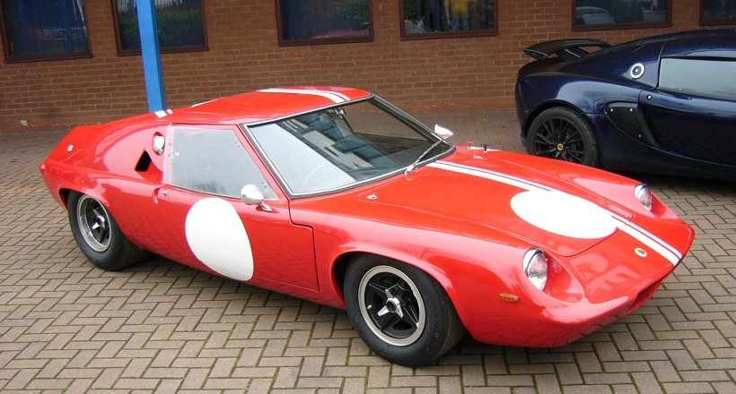 Lotus 47 GT 68 Donington Exhibition Centre